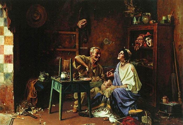 In the Masks Worshop